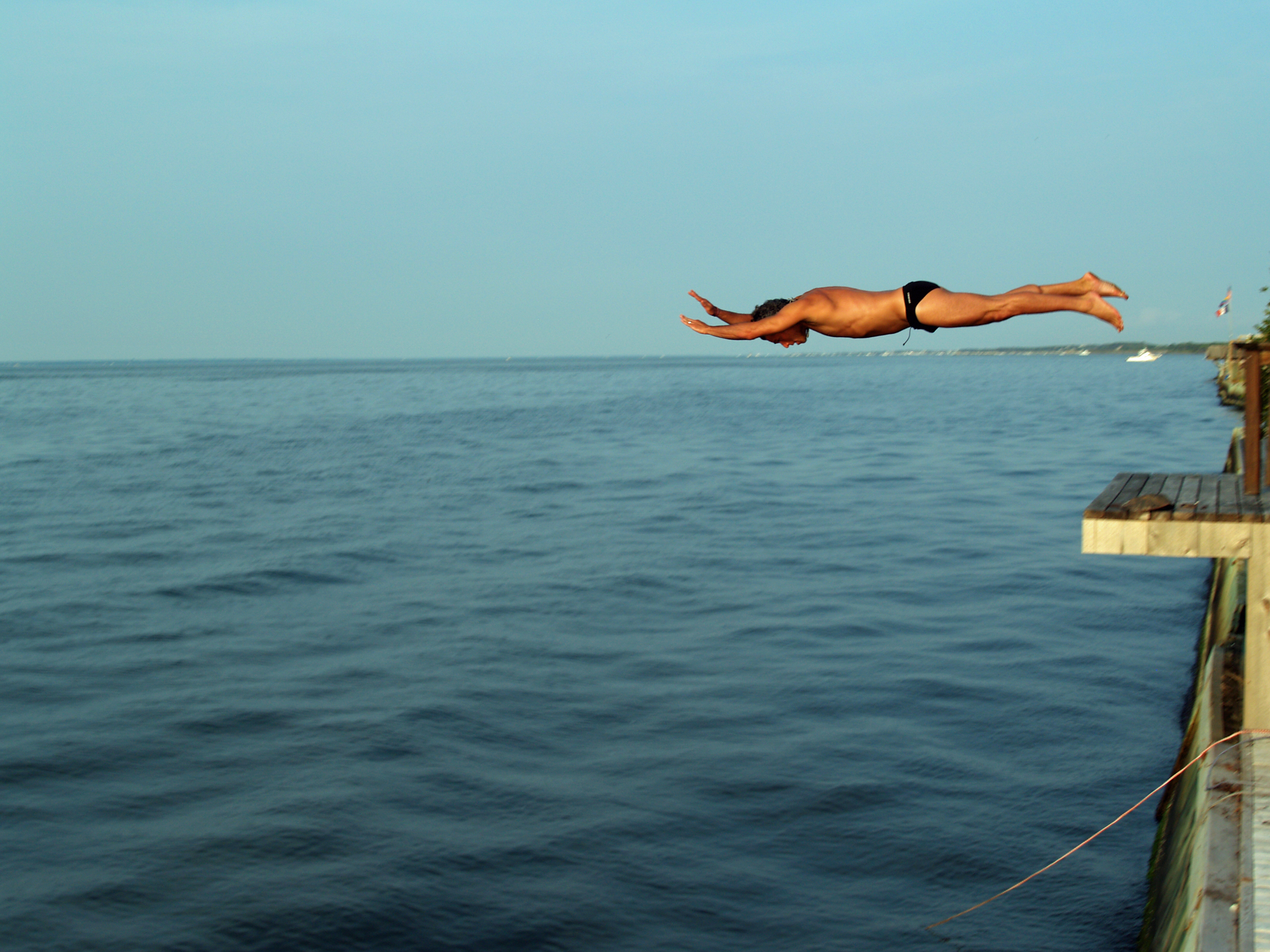 A man dives of the deck of Michael Lucas's home on Fire Island Pines and into the Great South Bay. Photographer's blog post about photo and event.